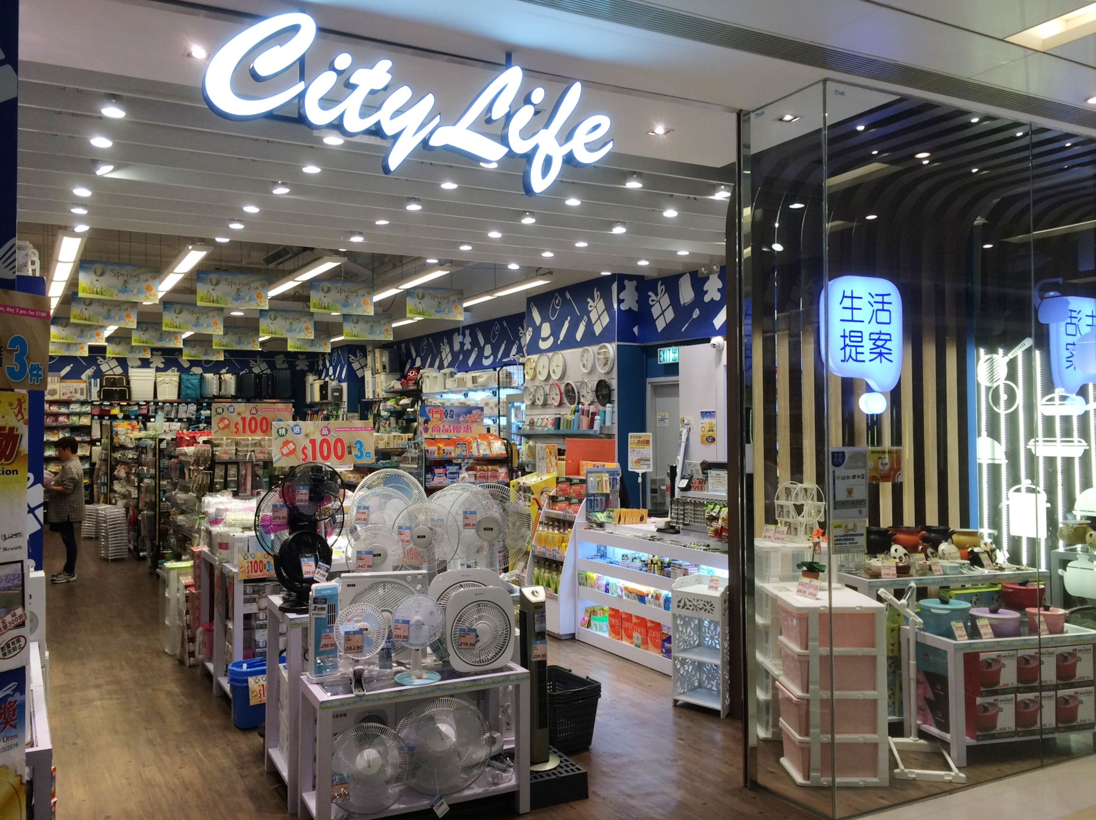 CityLife store in Mikiki